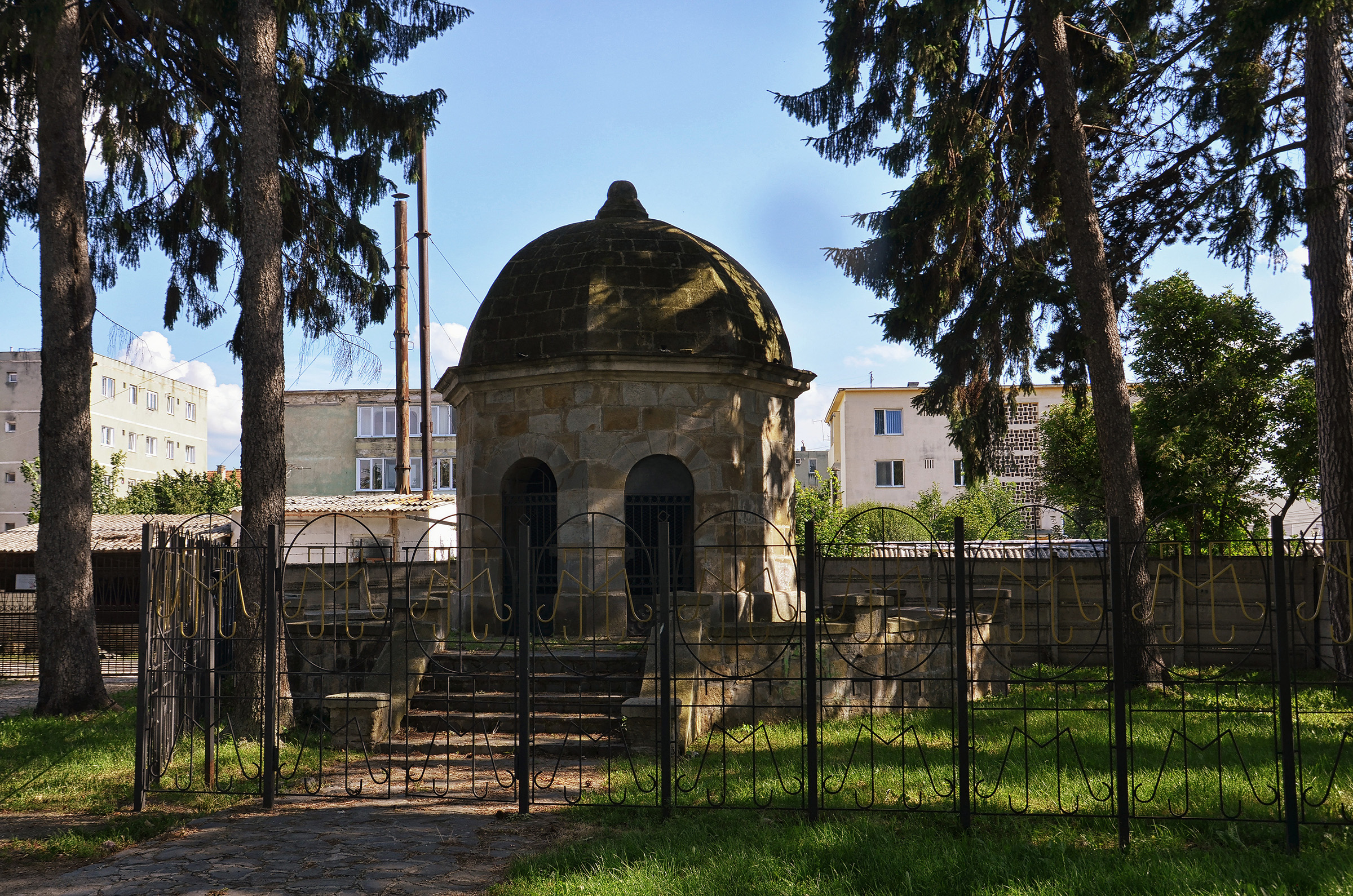 Józsiás Molnár's crypt in the Józsiás Park in Târgu Secuiesc